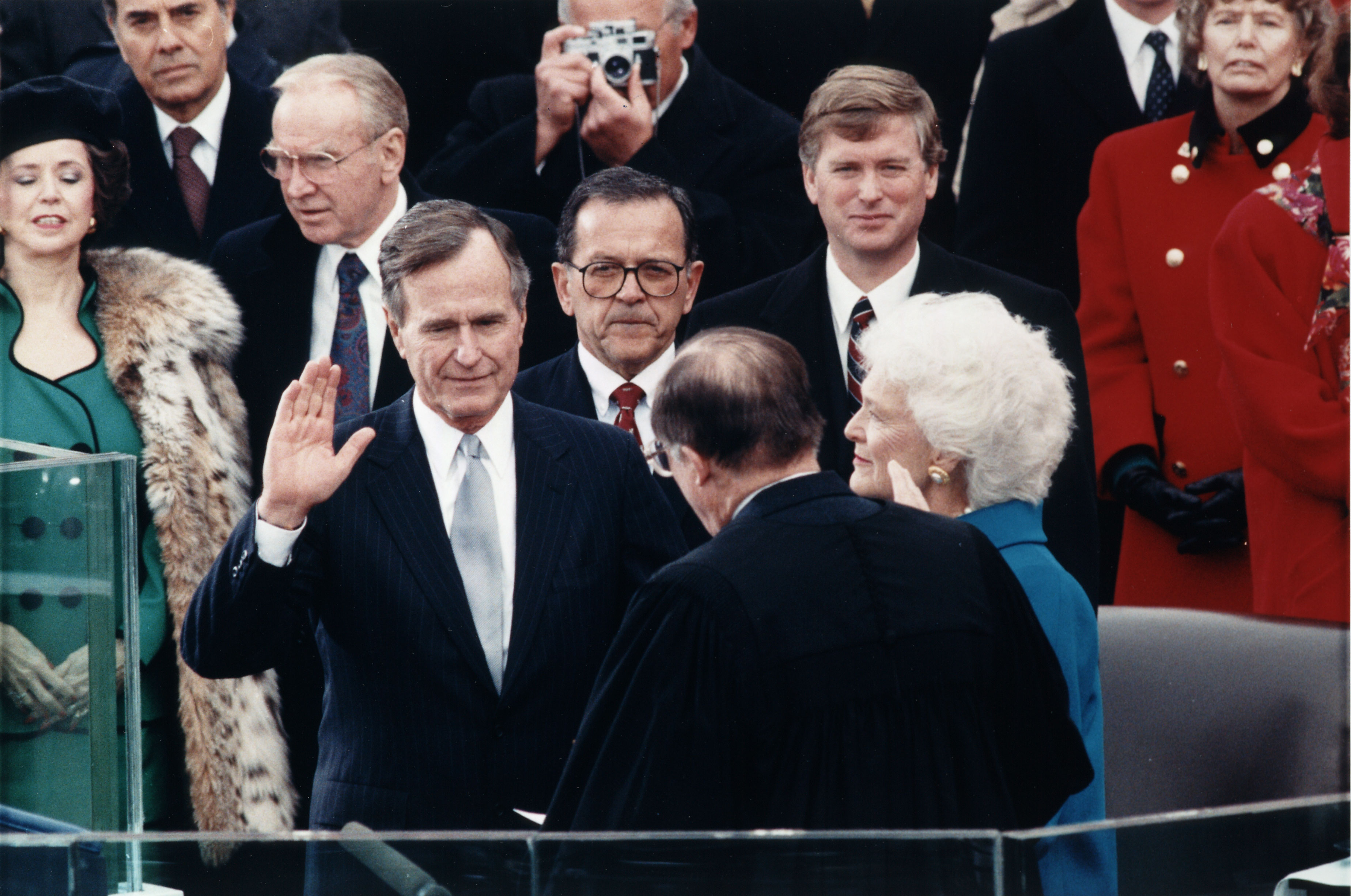 Chief Justice William Rehnquist administering the oath of office to President George H. W. Bush during Inaugural ceremonies at the United States Capitol. January 20, 1989. Also appeard Vice President Dan Quayle, House Speaker Jim Wright, and senators Bob Dole and Ted Stevens